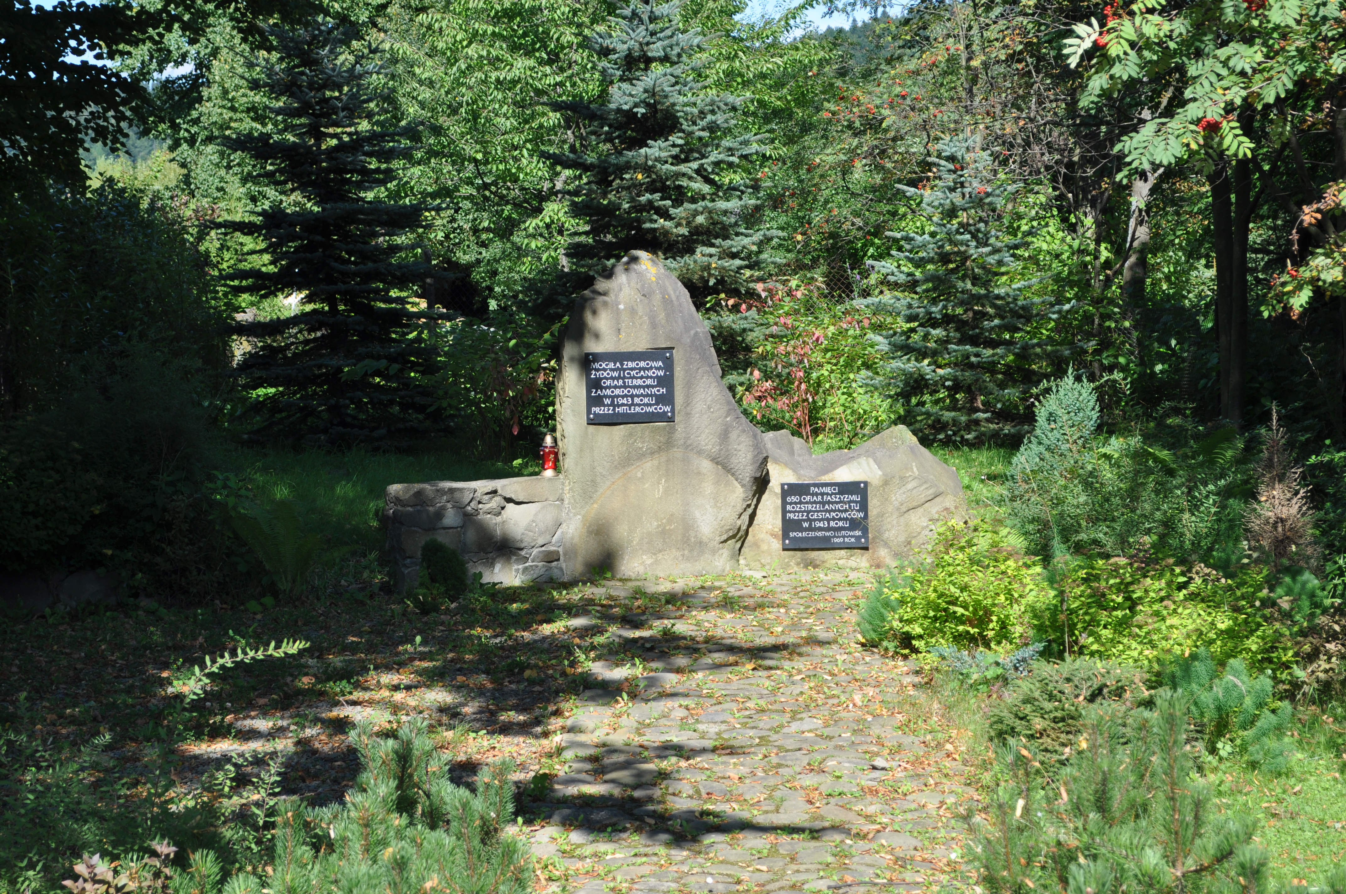 Monument in Lutowiska